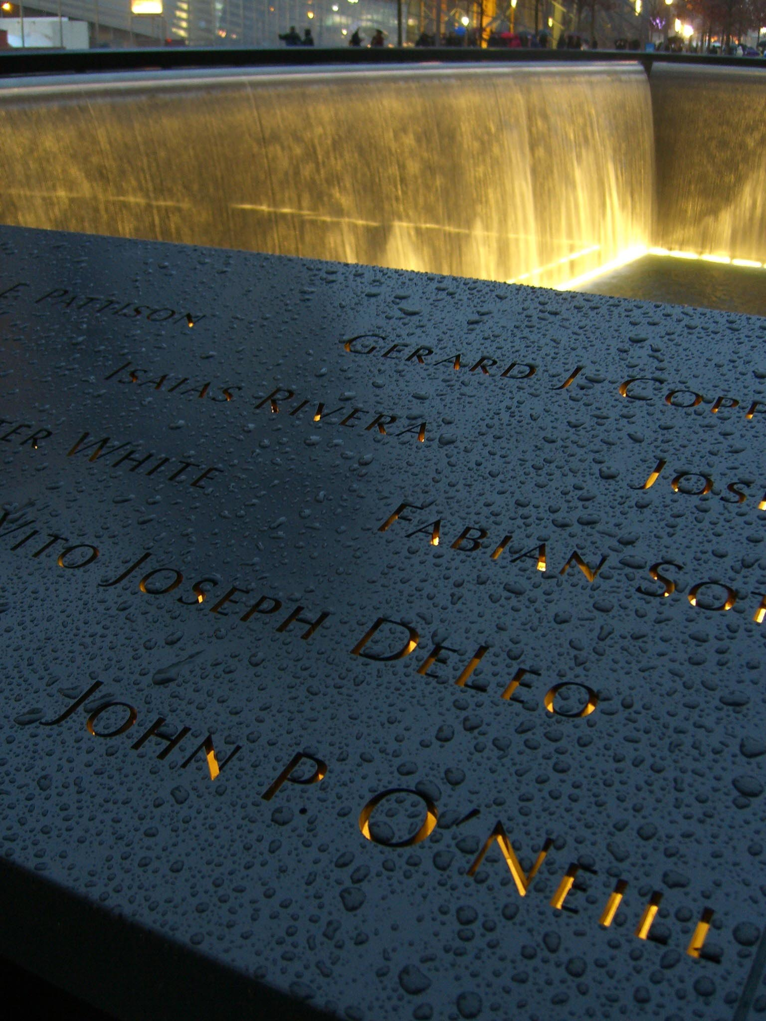 The name of 9/11 victim John P. O'Neill inscribed in bronze on panel N-63 of the North Pool of the National September 11 Memorial in Manhattan, as seen on December 6, 2011. This photo was created by Luigi Novi. If you have any questions, you can contact me by sending me an email or User talk:Nightscream